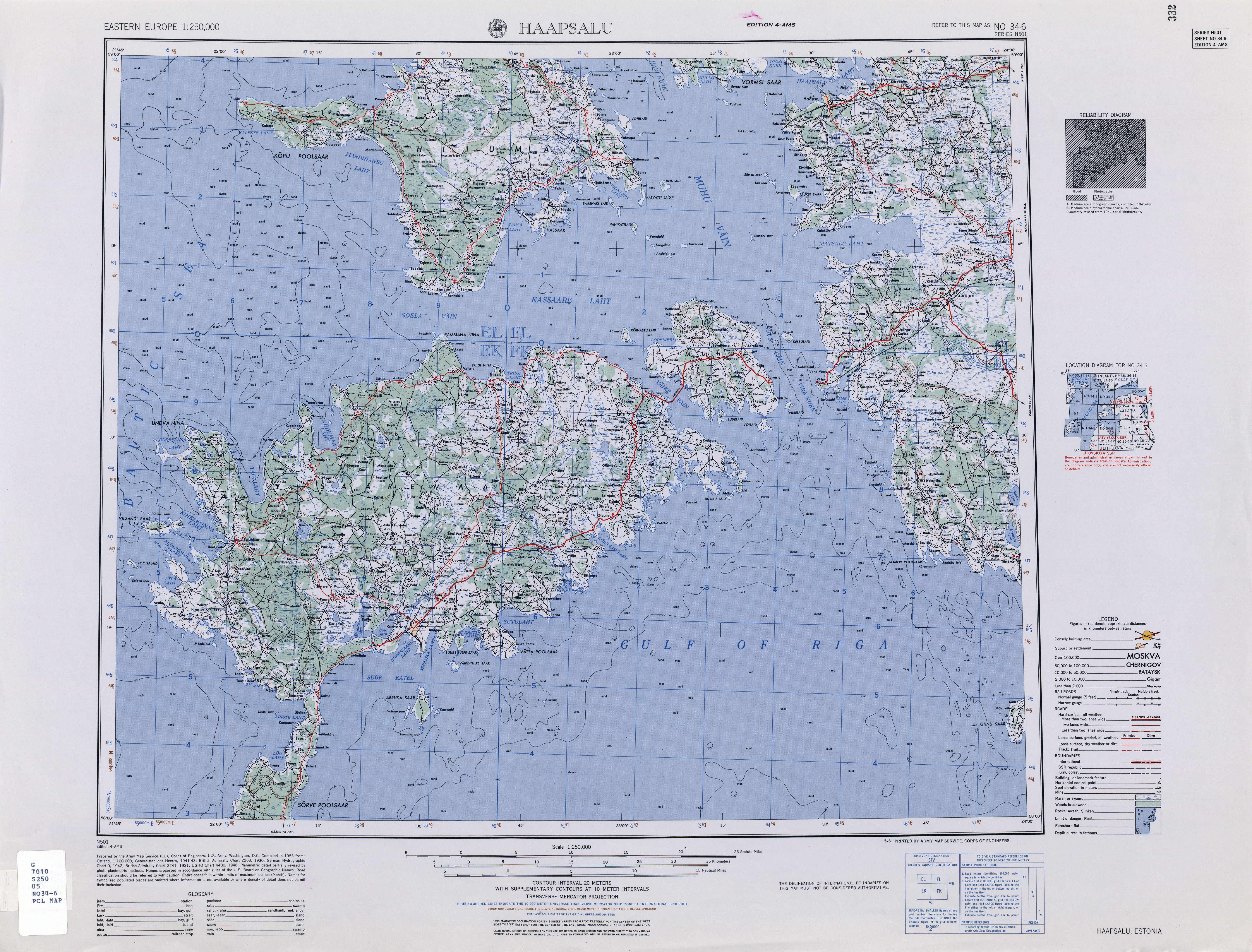 List from Eastern Europe AMS Topographic Maps. Series N501, U.S. Army Map Service, 1954